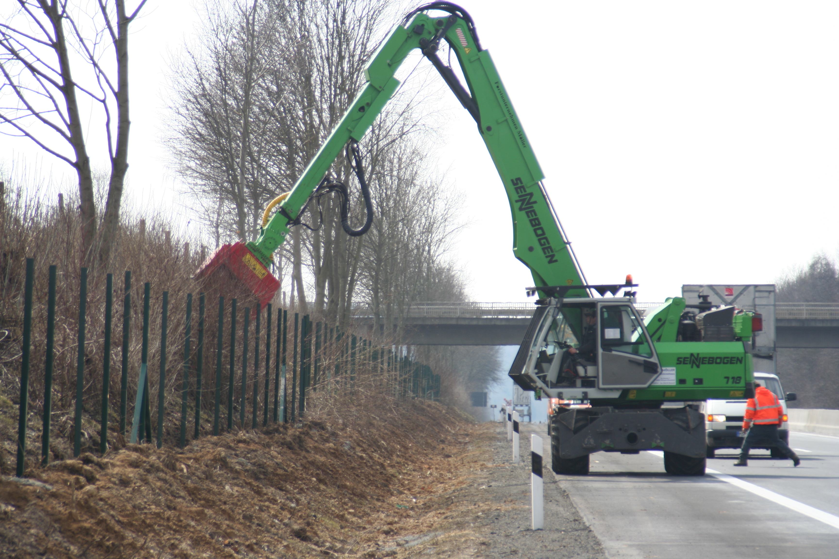 This is a Fecon mulching machine attached to a Sennebogen excavator, being used to clear roadside brush.